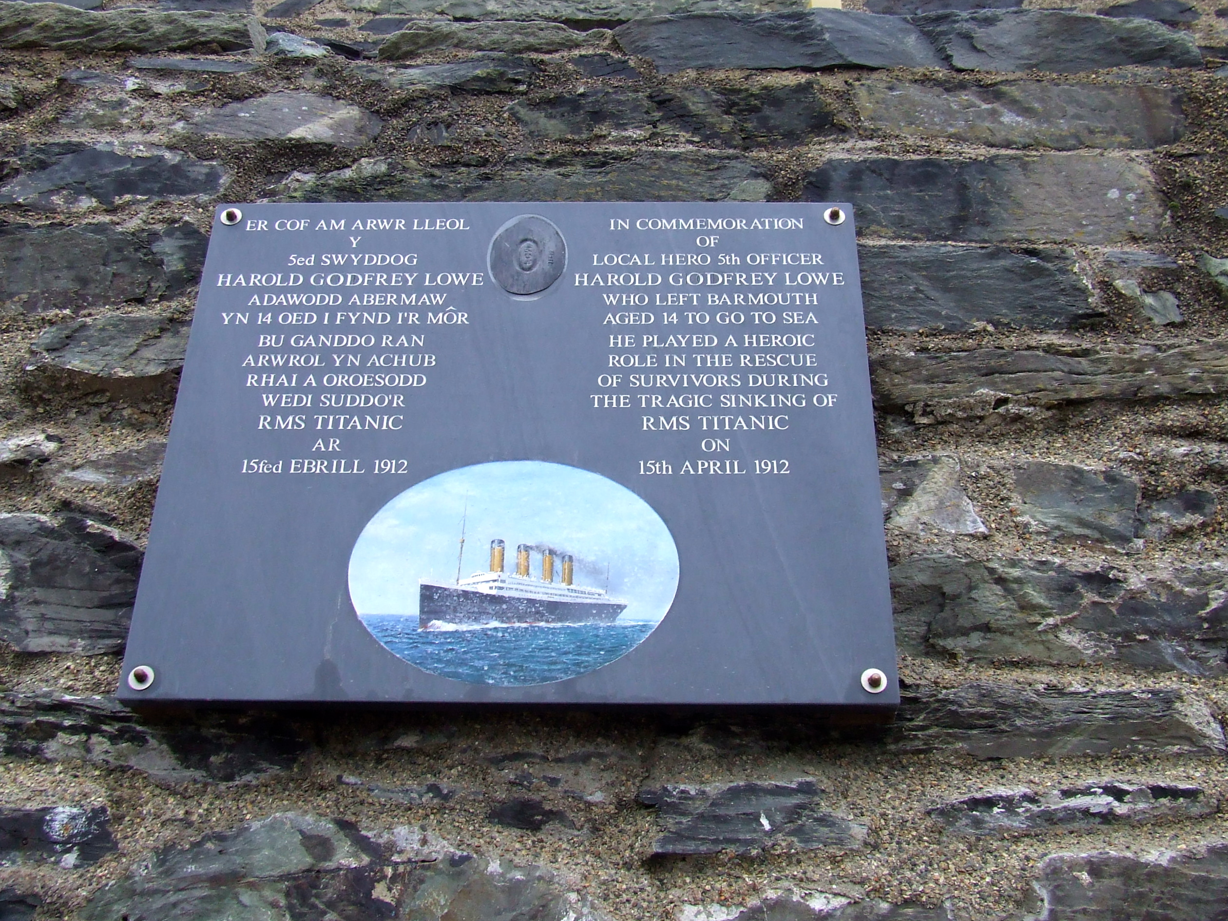 Plaque for Barmouth 'local hero' Harold Godfrey Lowe, 5th Officer on the RMS Titanic